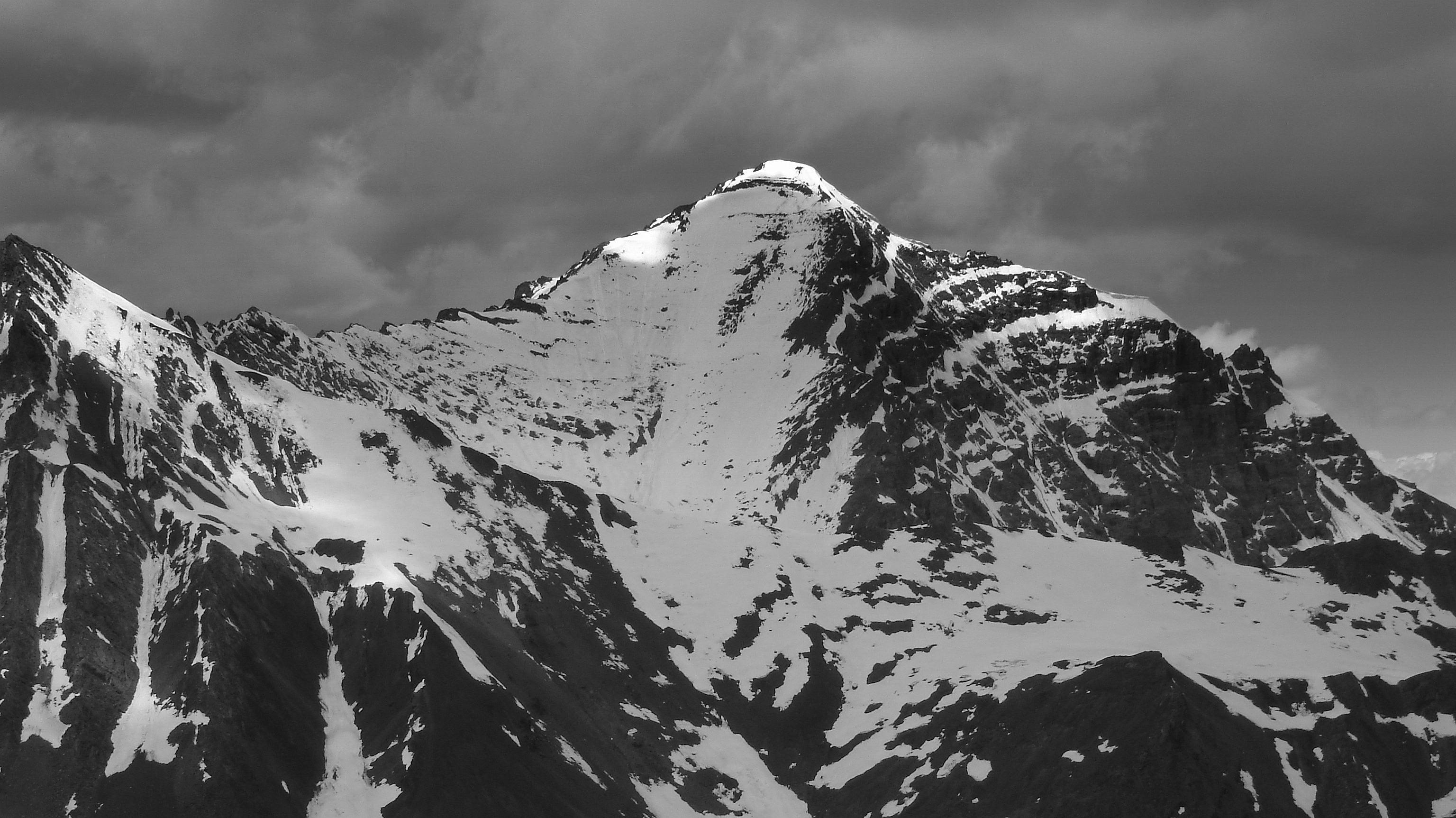 Cropped version of Stok Kangri photo.